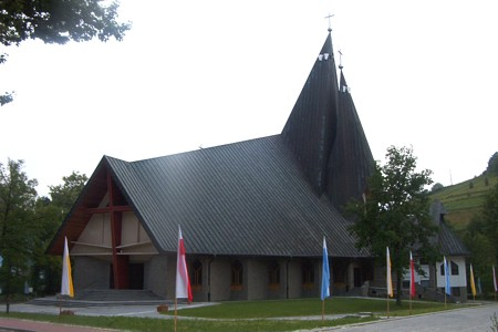 Church in Rytro, PL